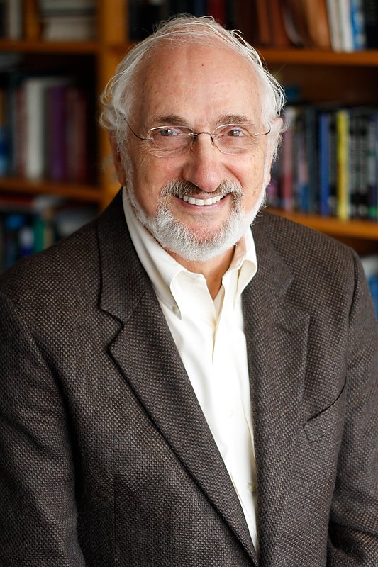 Professor Jerry Wind